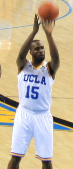 Shabazz Muhammad of UCLA shooting a free throw.